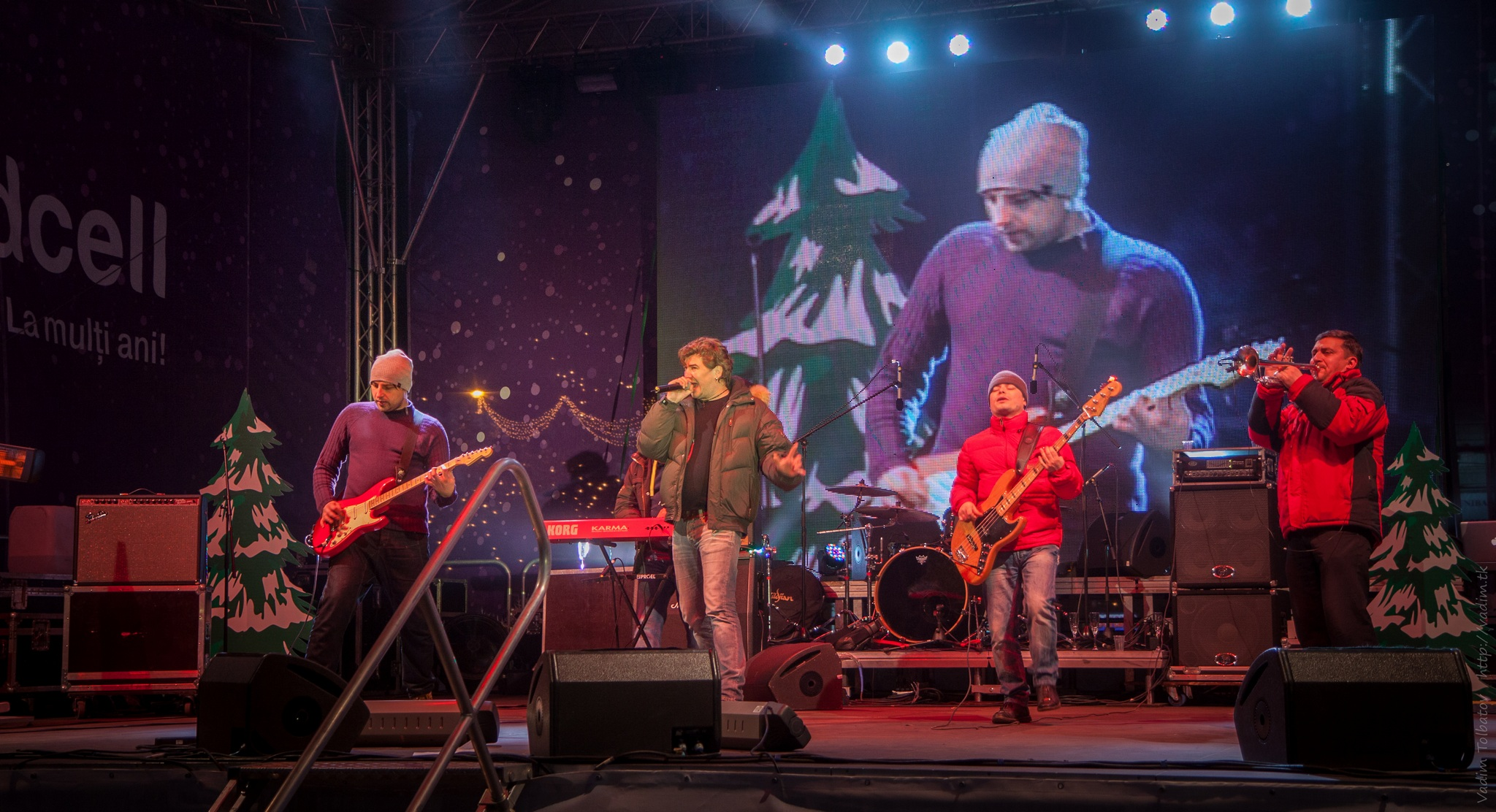 Gândul Mâței (Concert in Chișinău, 01-Jan-2014)